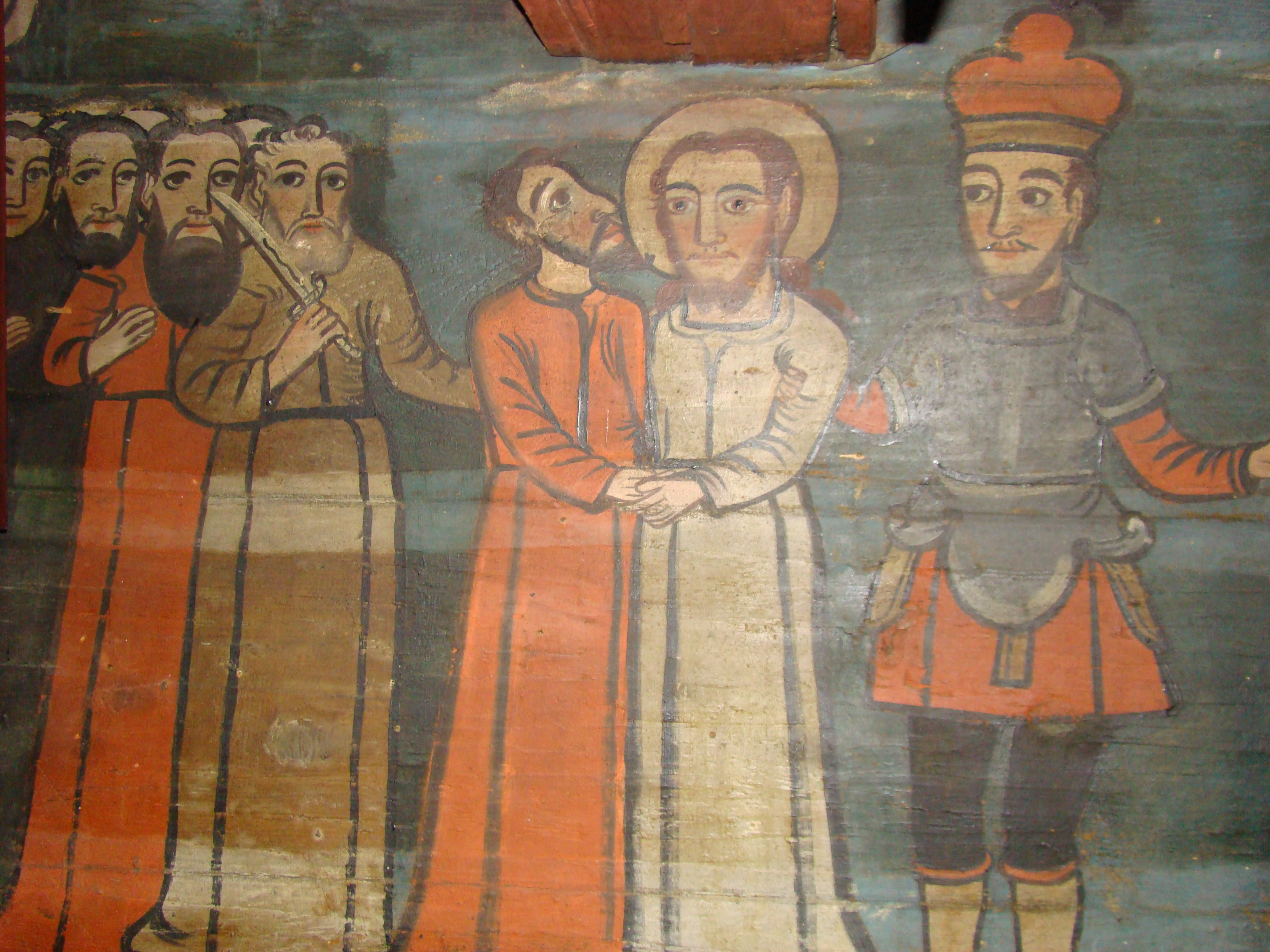 Rotărești, Bihor county, Romania: the wooden church